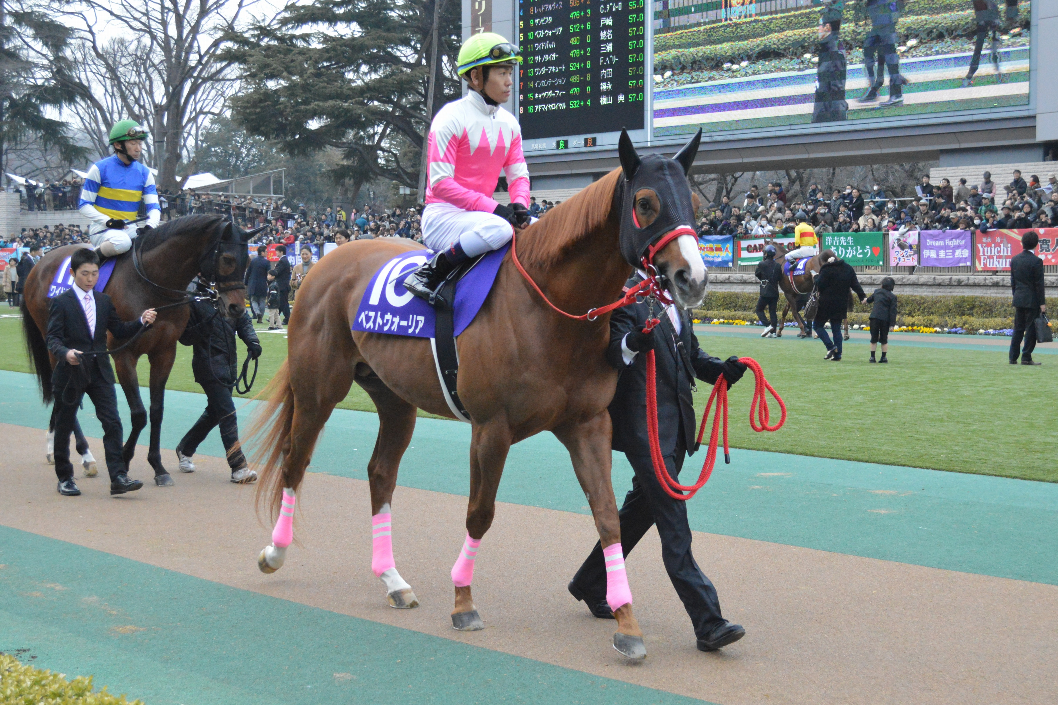 Japanese race horse Best Warrior at Tokyo racecourse. Tokyo (JPN) 22 Feb 2015February Stakes (Grade 1) (4yo+) (Dirt) 1m Standard RankHorse NameOddsAgeWgtTrainerJockey1stCopano Rickey (JPN)11/10FH59-0Akira MurayamaYutaka Take2ndIncantation (JPN)128/10H59-0Tomohiko HatsukiHiroyuki Uchida3rdBest Warrior (USA)54/10H59-0Sei IshizakaKeita Tosaki4th - 16th/omission